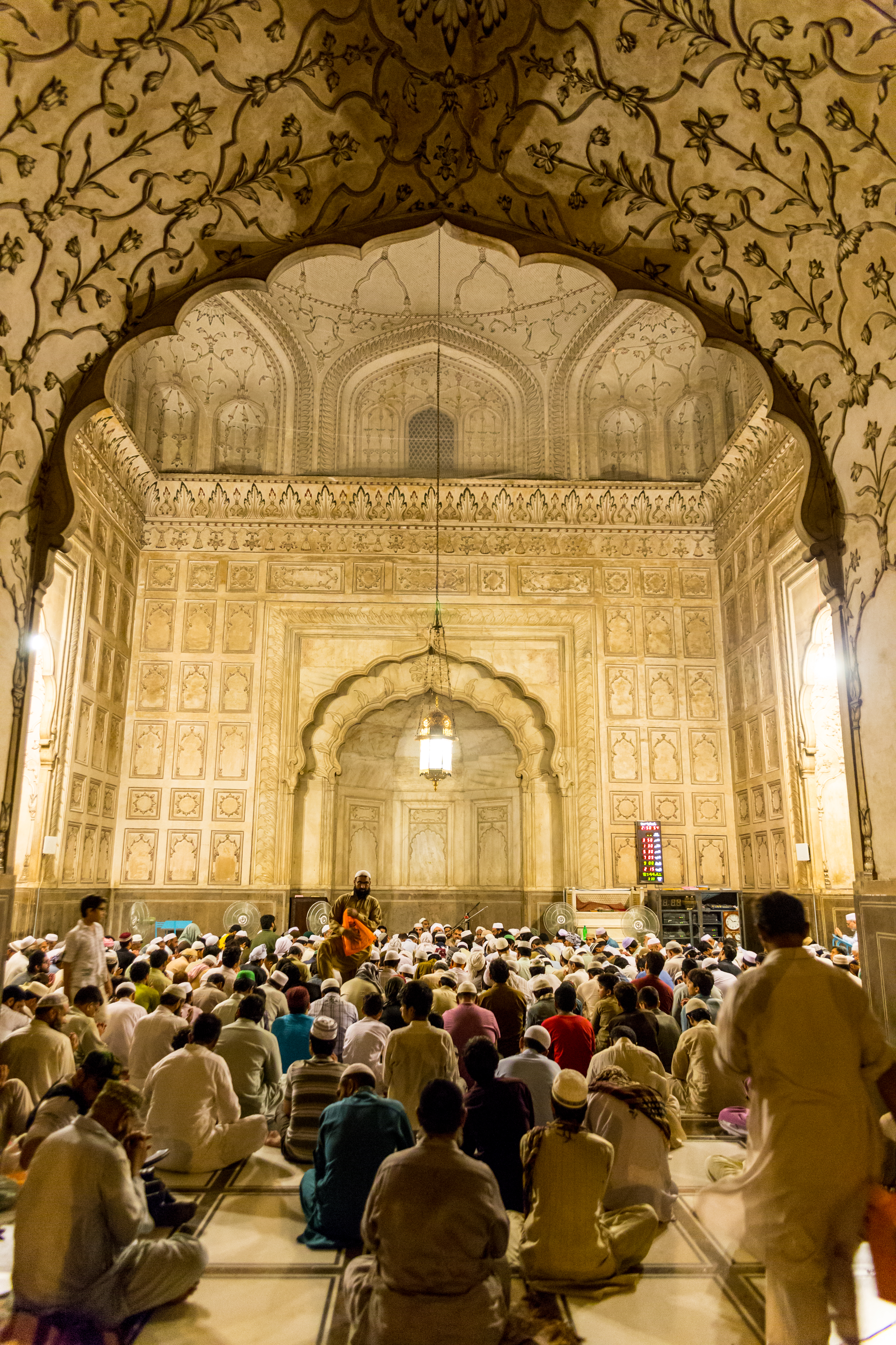 Badshahi Mosque (King’s Mosque) This is a photo of a monument in Pakistan identified as the PB-44